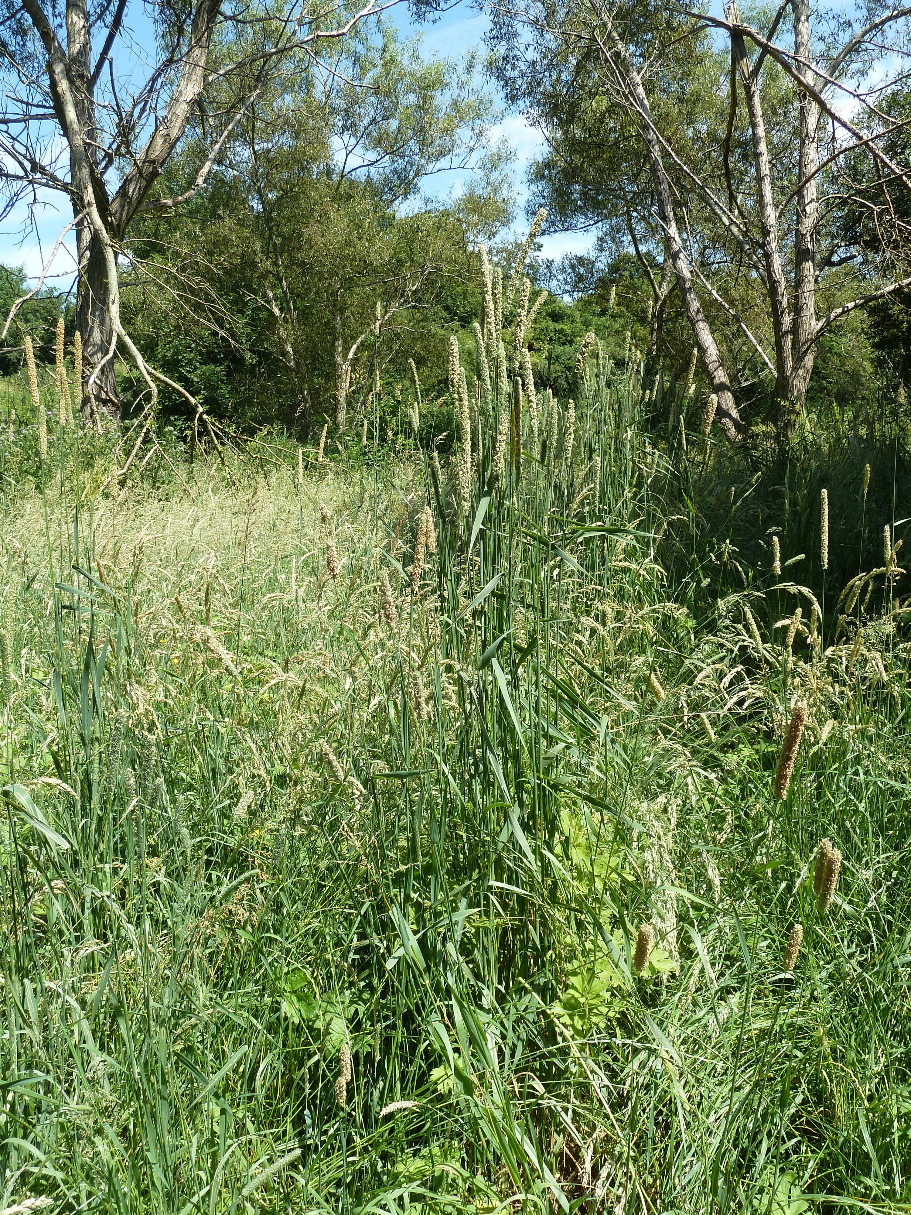 Hilden, Co. Antrim, Ireland Phleum pratense habitus and habitat July